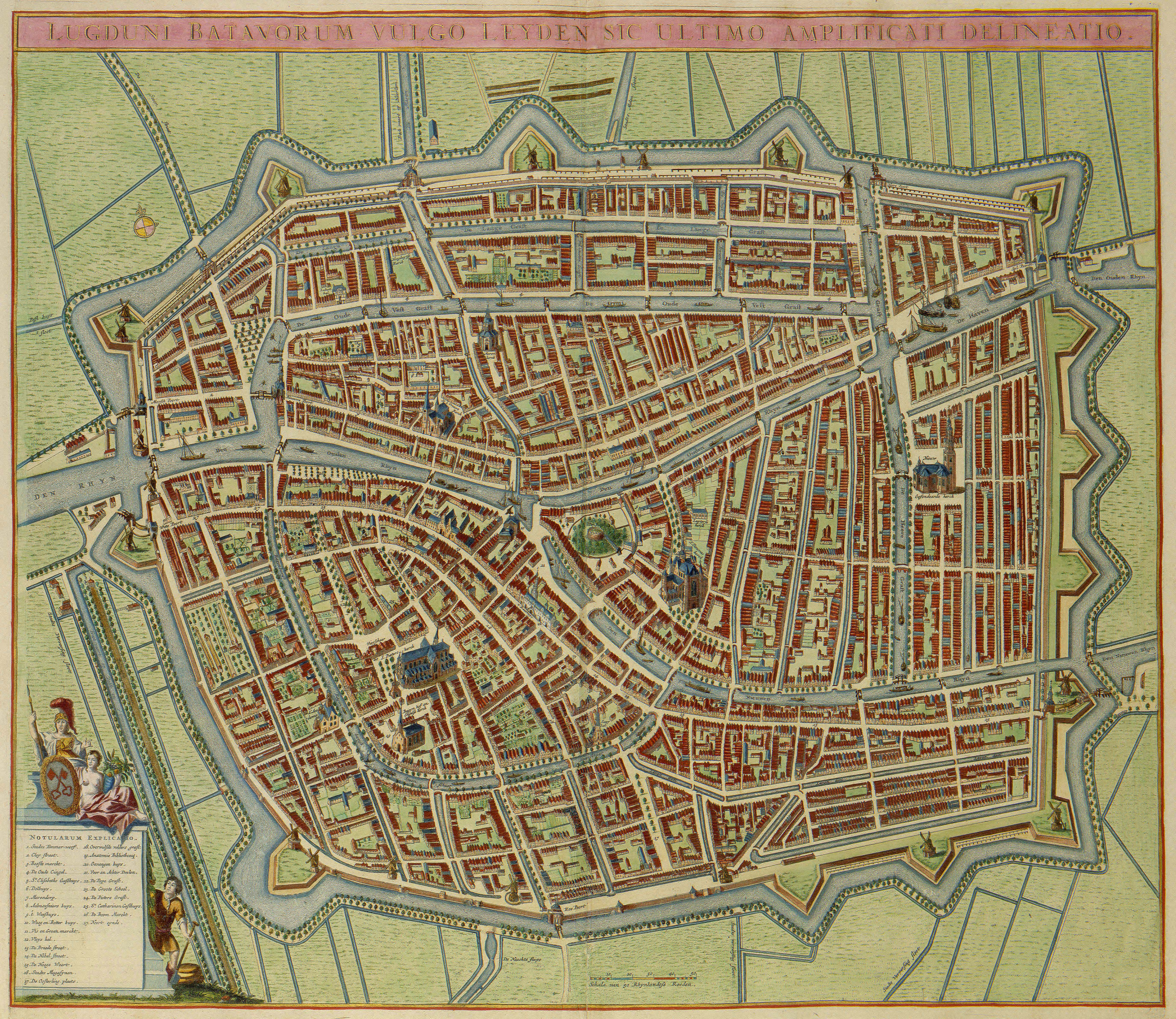 The map of Leiden was published by Frederik de Wit (1630-1706) in the last decennium of the 17th century. Although De Wit published a wide range of cartographic materials most of his publications were hardly original or accurate. Many of his maps appeared to be copies or reissues from old copper plates only to be signed with his own name and address. This is the case with this plan of Leiden. The town plan was copied from a wall map of the city of Leiden designed by Christiaan Hagen (active 1663-1695) in 1675.